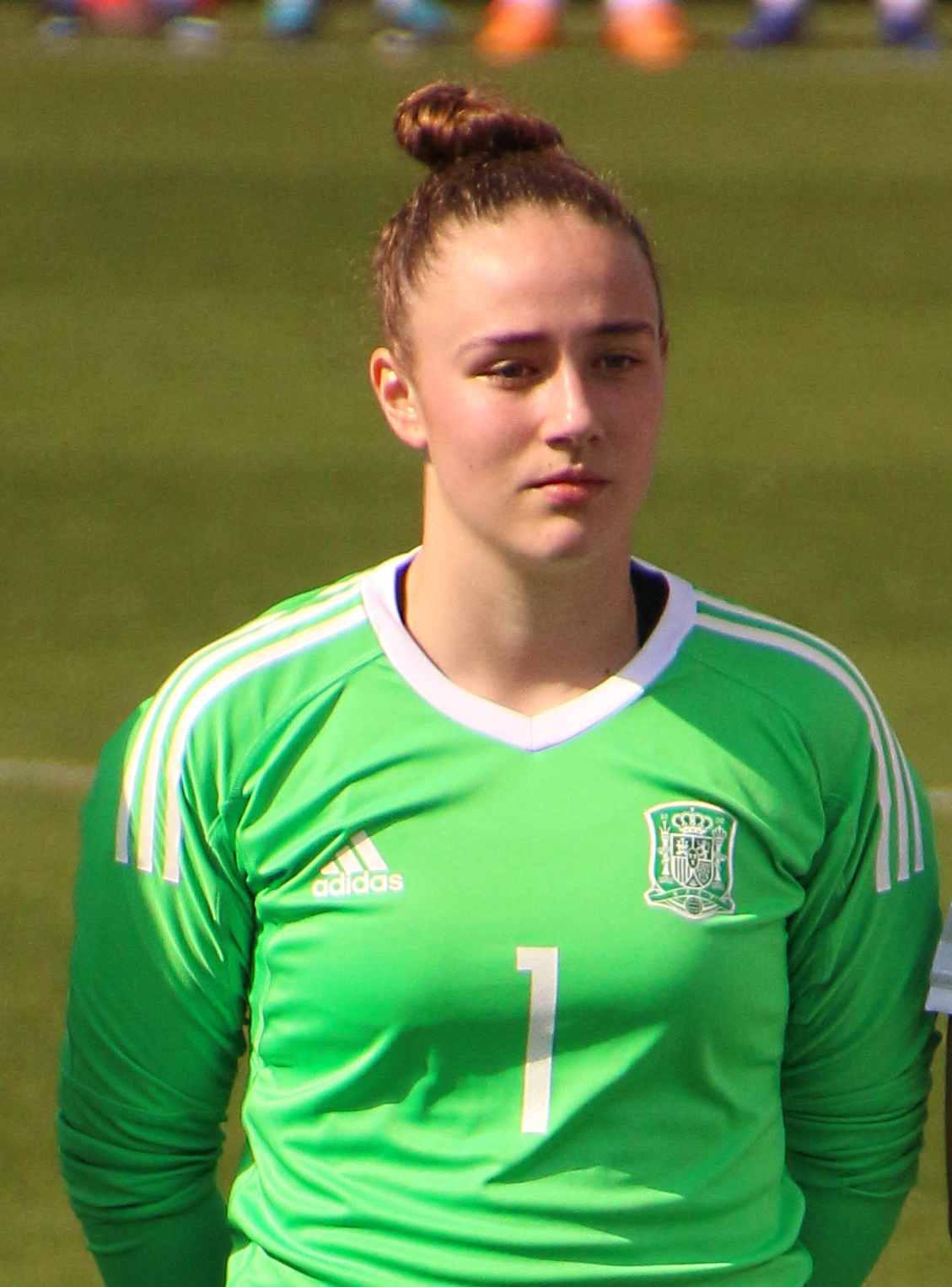 Spanish Women's Soccer Team